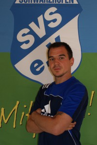 The photo is in front of the SVS emblem.